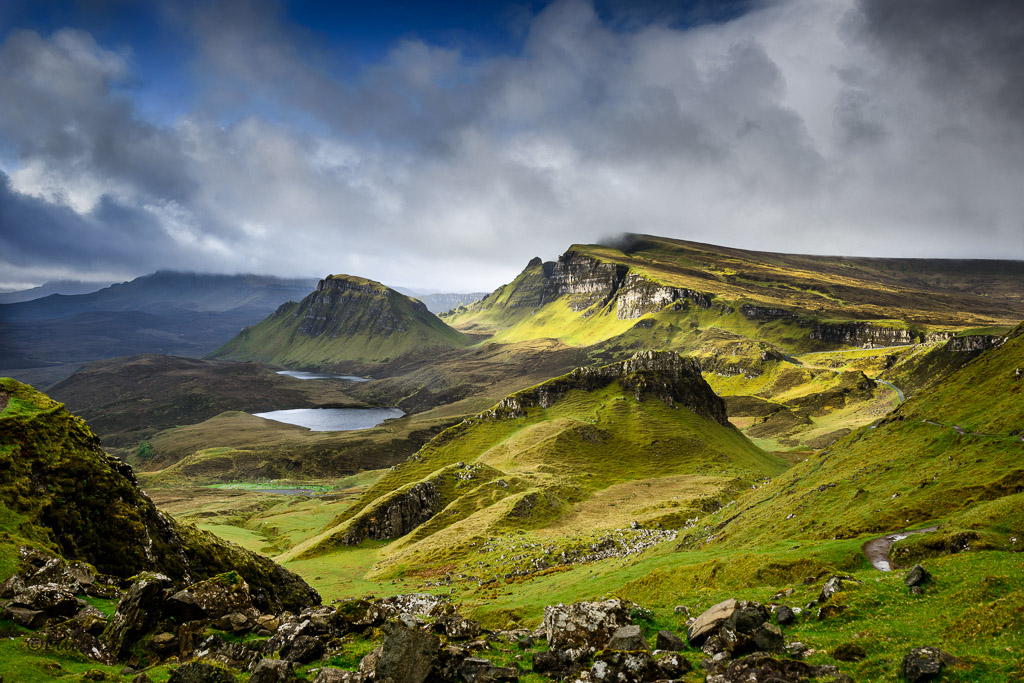 Blue is coming in Quiraing